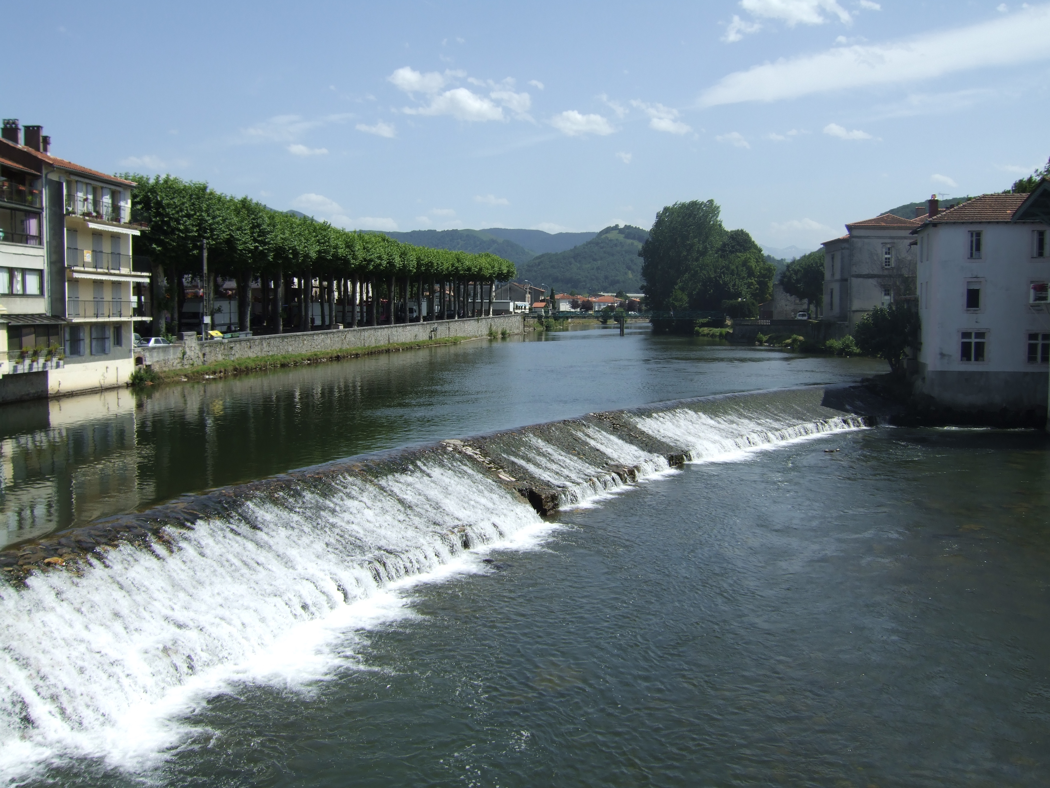 River Salat in St.Giron (France)